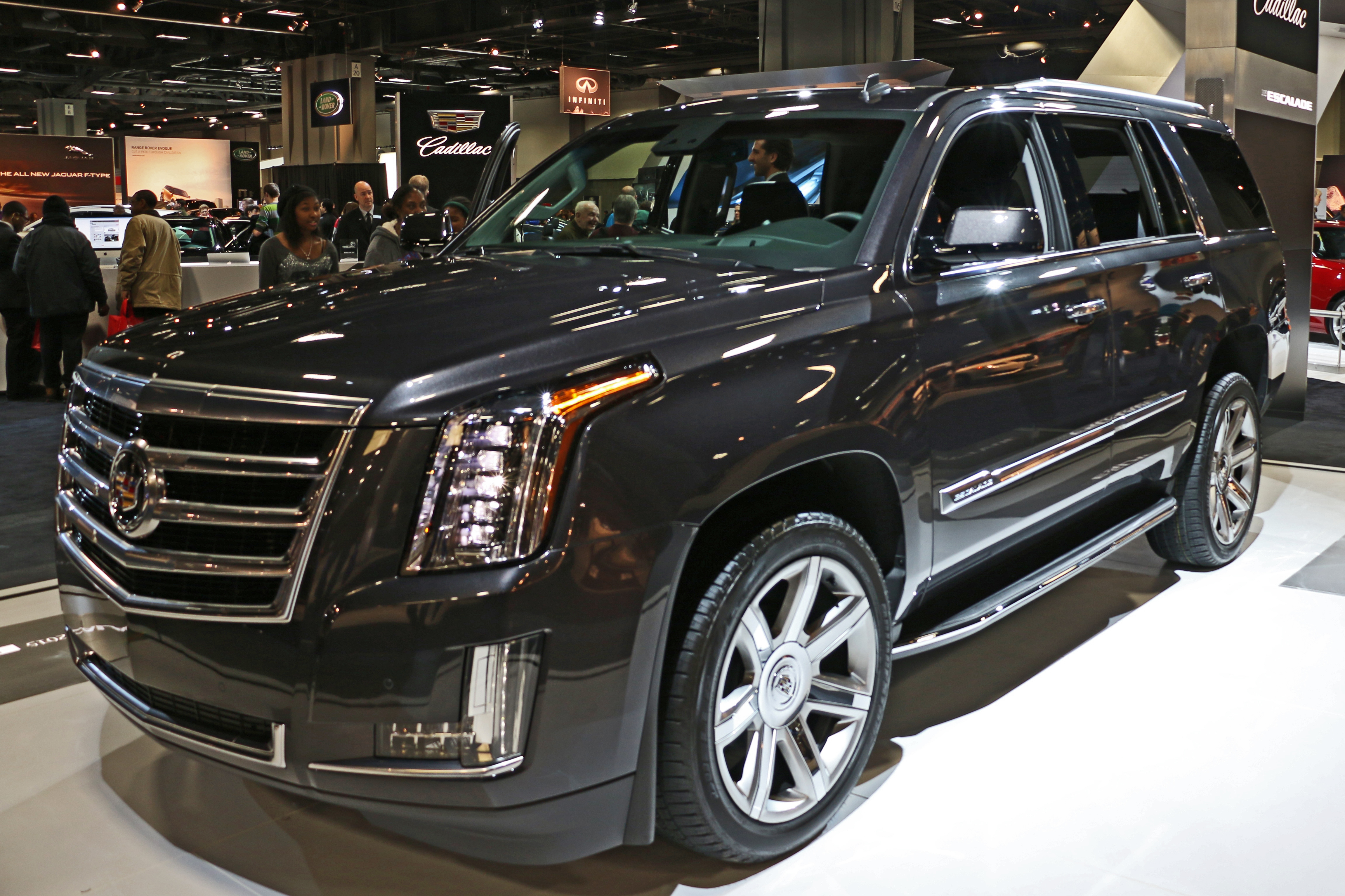 2014 Washington Auto Show